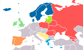 A map which shows persistent voting blocs in the Eurovision song contest (countries the same color often vote for each other.